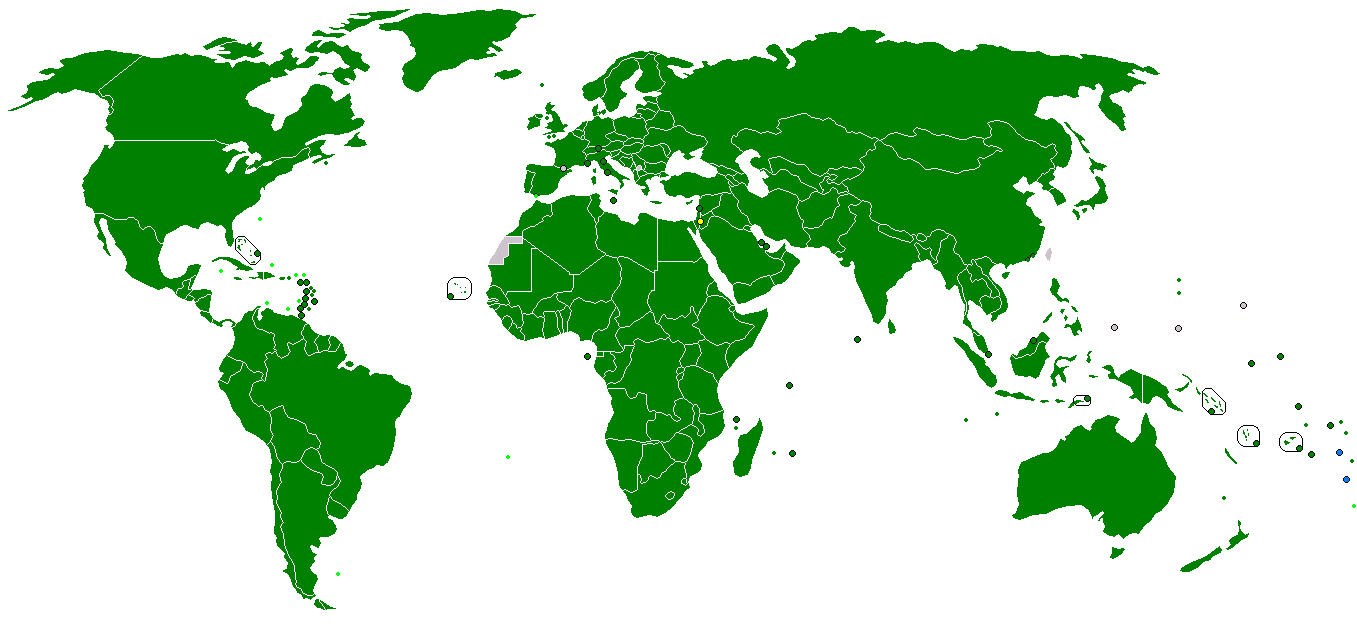 dark green - member states; light green - separate membership of member state dependencies; blue - states represented by another state; yellow - special observer status